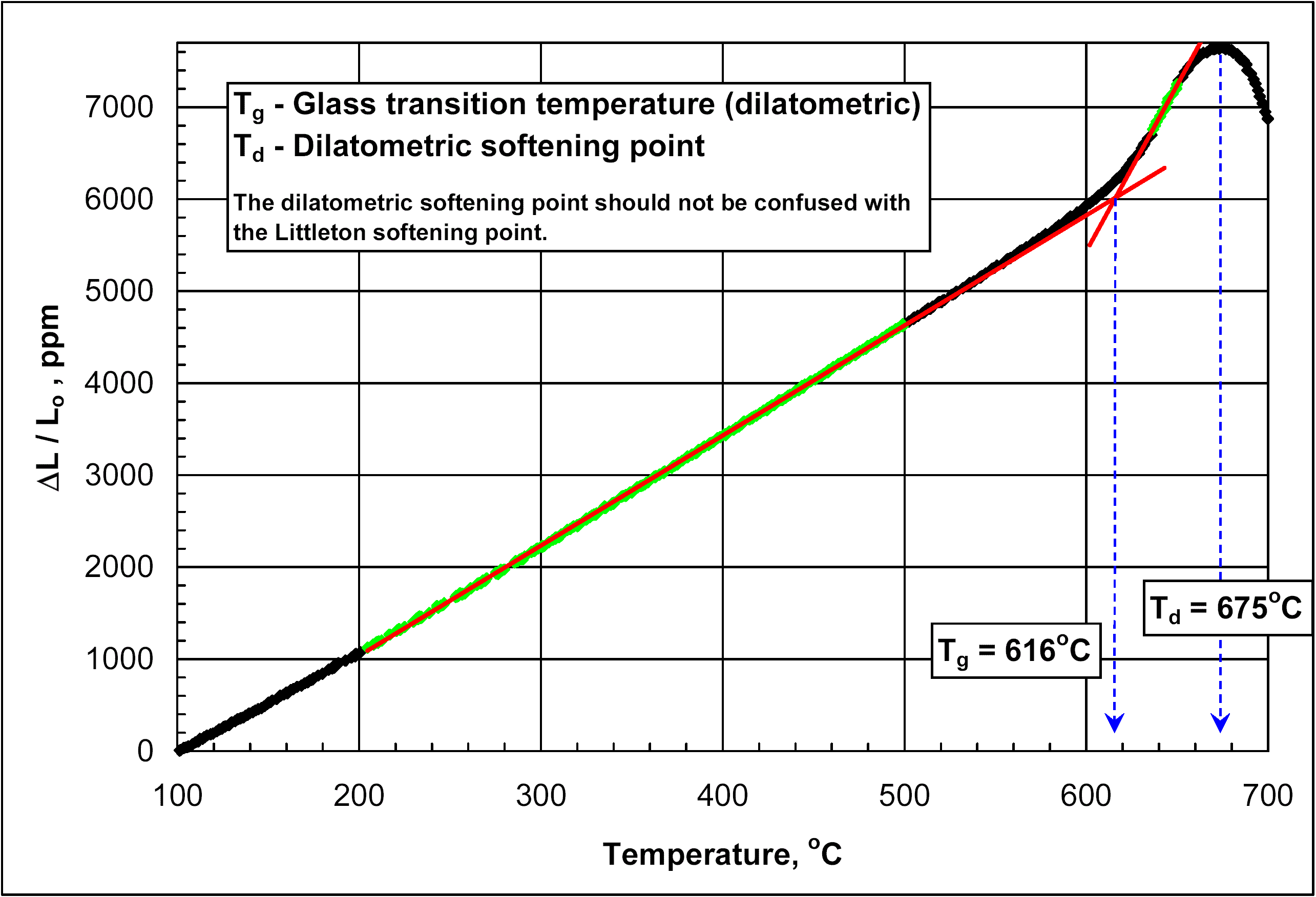 Determination of Tg for glasses by dilatometry. The linear sections below and above Tg are marked green; Tg is the temperature at the point of intersection of the corresponding red regression lines.